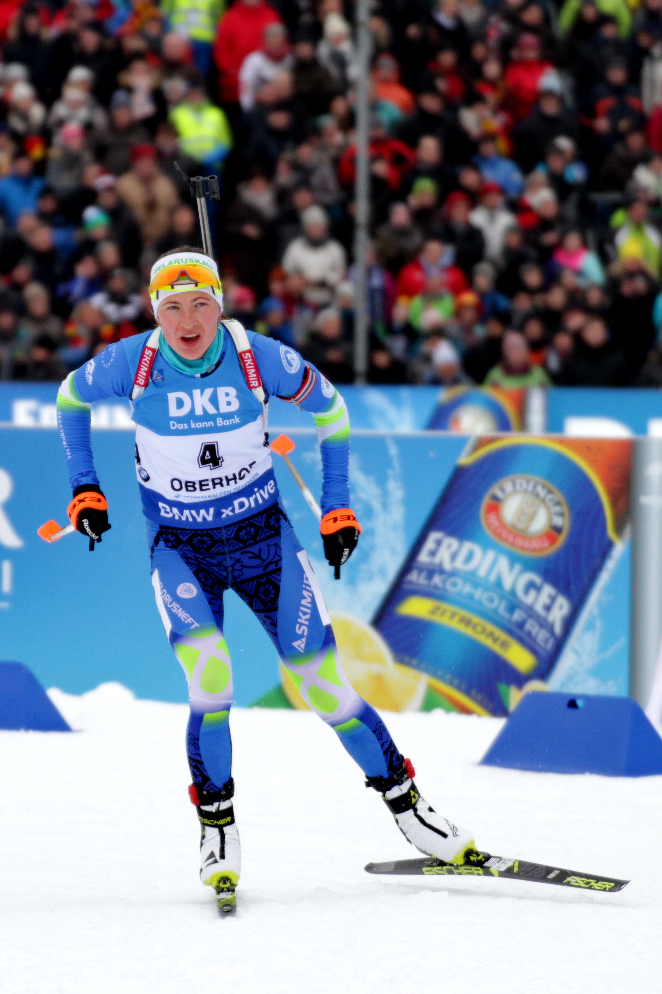 2018 Oberhof Biathlon World Cup - Sprint Women